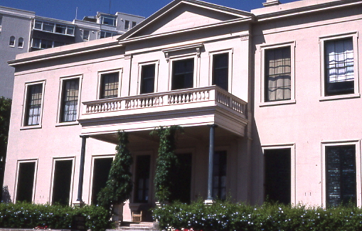 elizabeth bay house, sydney